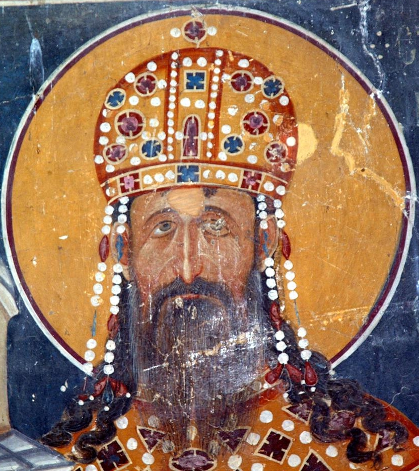 The fresco of king Stefan Milutin, King`s Church in Studenica, Serbia